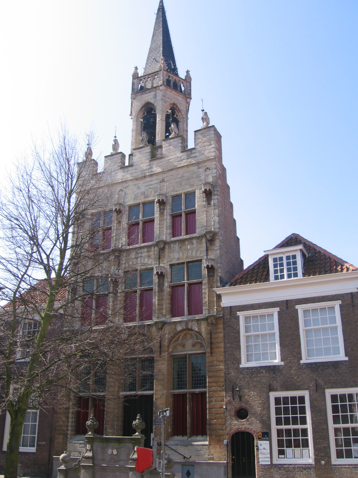 Tholen